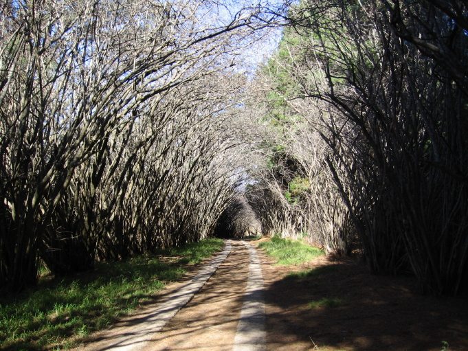 Hogsback, Eastern Cape, the path to the Eco-Shrine